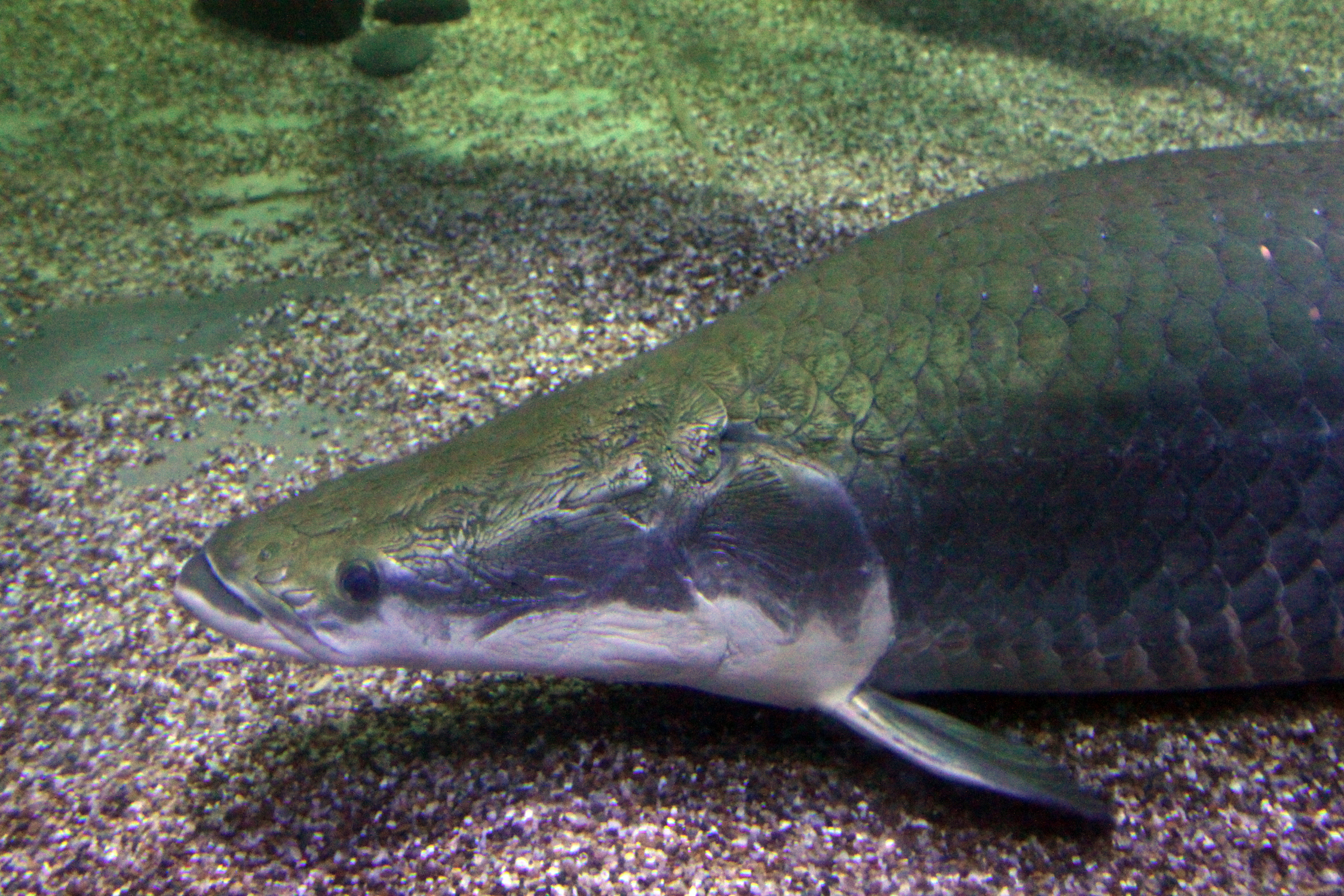 Arapaima gigas (a.k.a pirarucu or paiche) at Sea World, Taman Impian Jaya Ancol, Jakarta, Indonesia.